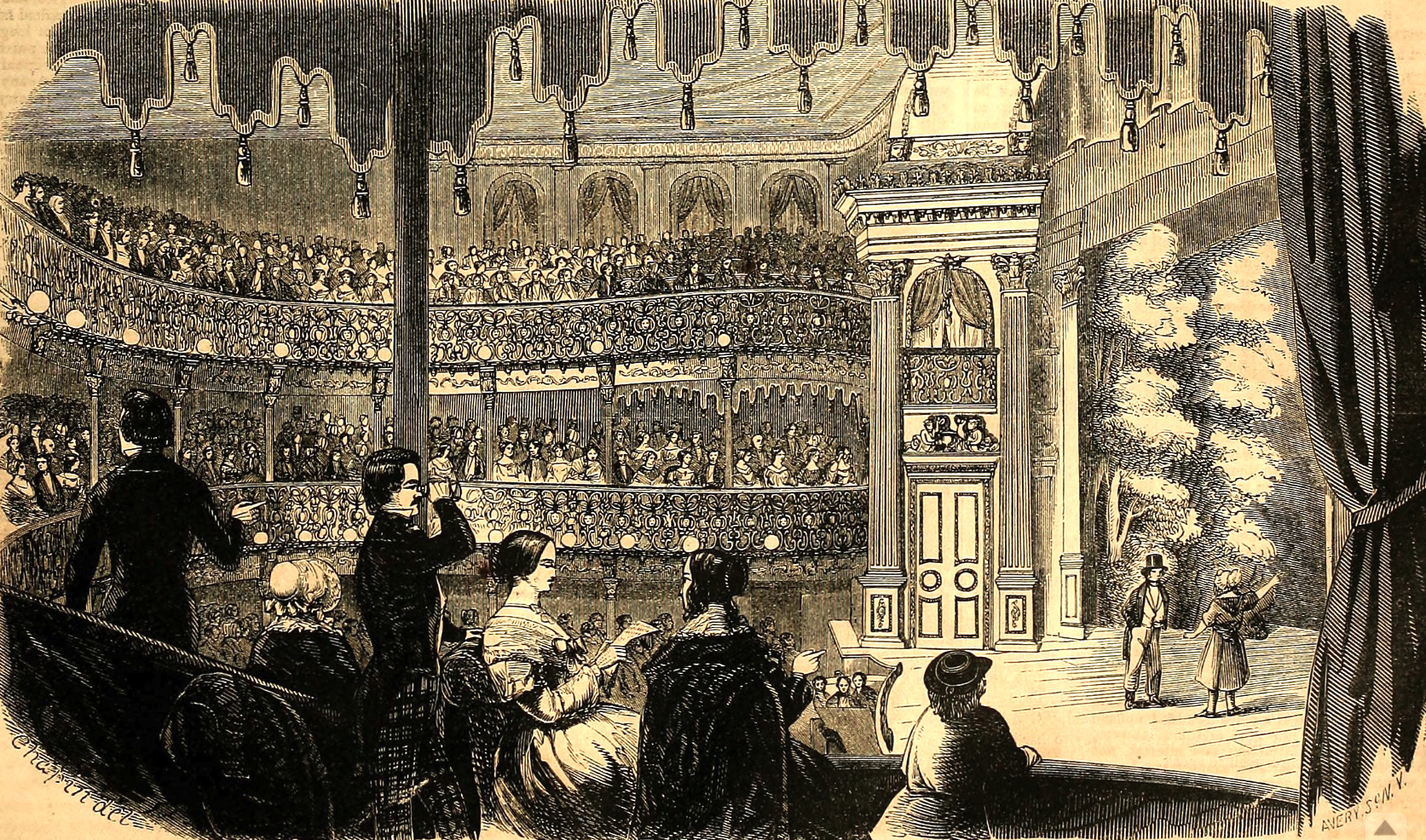 Jpg version of File:Lecture Room (theatre) of Barnum's American Museum, New York City.tiff